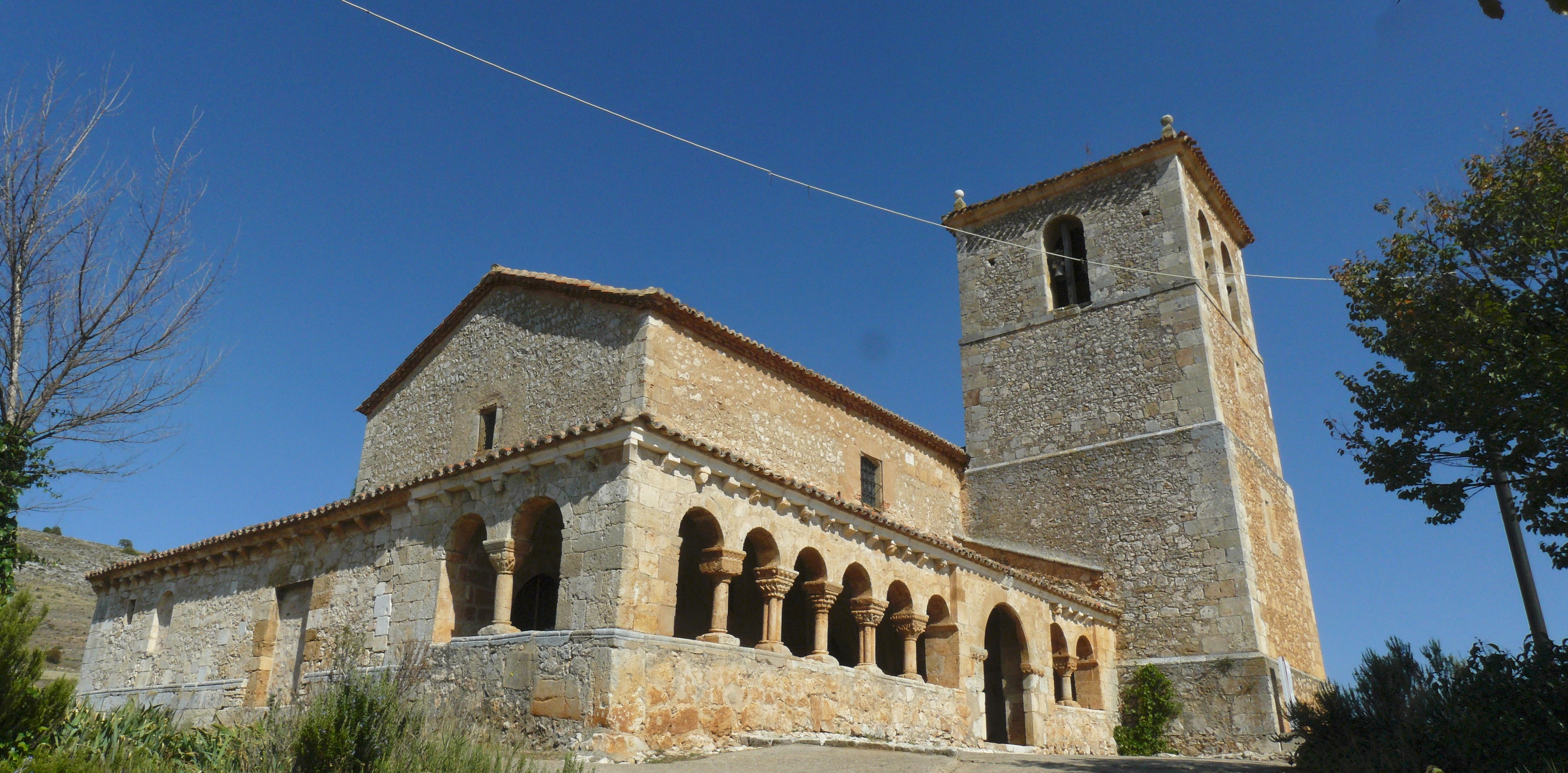 Church of San Miguel at Andaluz, Soria (Spain).